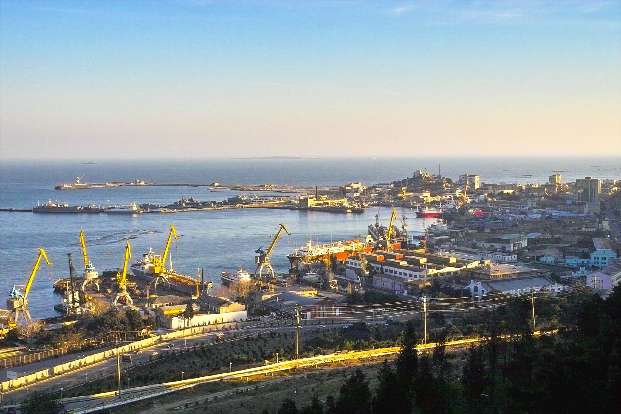 Bailovo, Baku, Azerbaijan